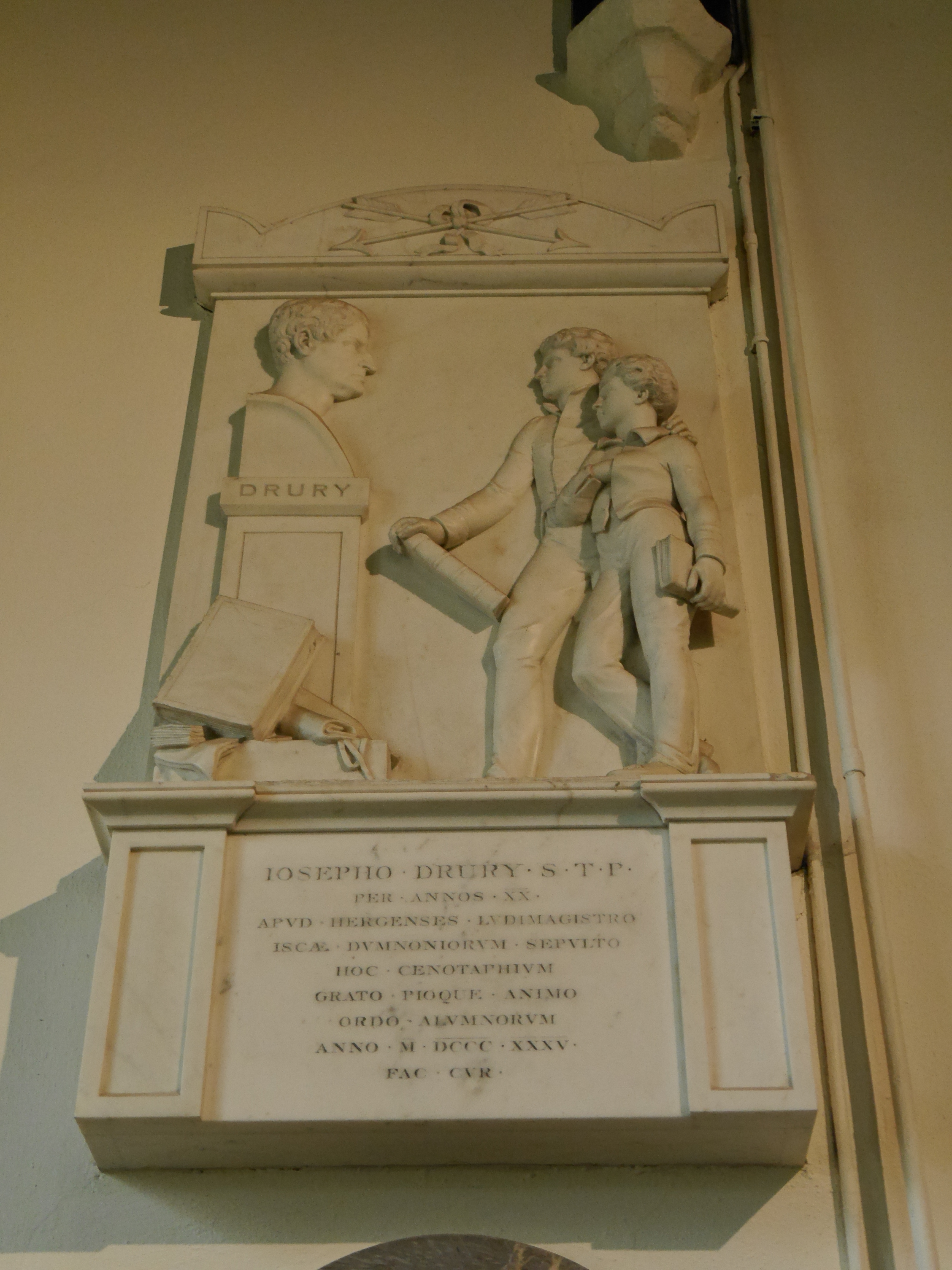 St Mary's, Harrow on the Hill, 2015